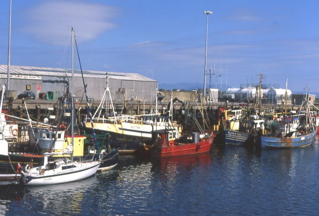 Ros an Mhíl. Anglicised as Rossaveal, this is a busy little fishing harbour, and departure point of the ferry to Inishmore.